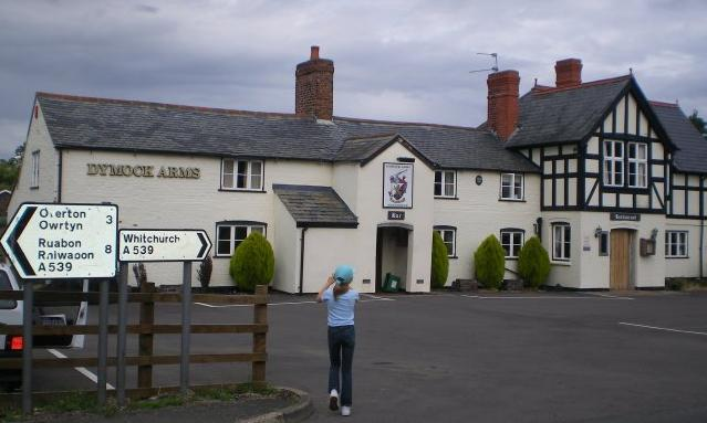 A pub built in 1550 in Penley near Wrexham, North Wales, UK